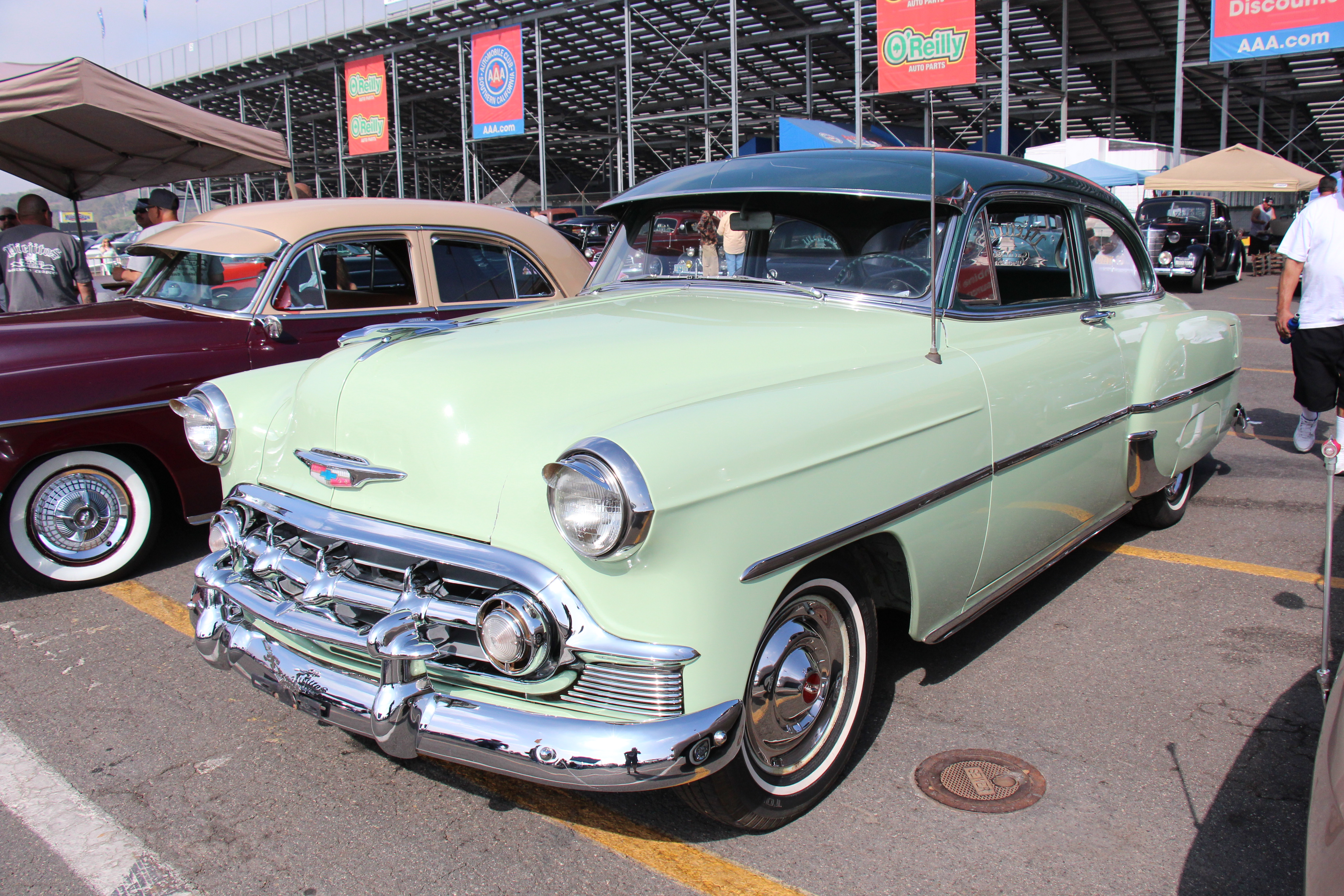 Chevrolet introduced a new body in 1953, although still on the same frame and mechanicals of the 49-52 cars. For 1949-52, the Special was the base model, Deluxe the mid spec, and the Bel Air, introduced in 1950, and only available in 2 door coupe, was the top of the line. For 1953, base model was the 150, mid spec the 210 and top still the Bel Air, now available in all body styles. 2 and 4 door sedans were available, convertible and the 2 door Sports Coupe. The 1953 grilles teeth were more prominent and the parkers back to round, the windscreen was now one piece. Chevrolet sedans were also produced in Australia by General Motors using modified American bodies from 1926-68. Engine; 235 cu in 6 cyl blue flame